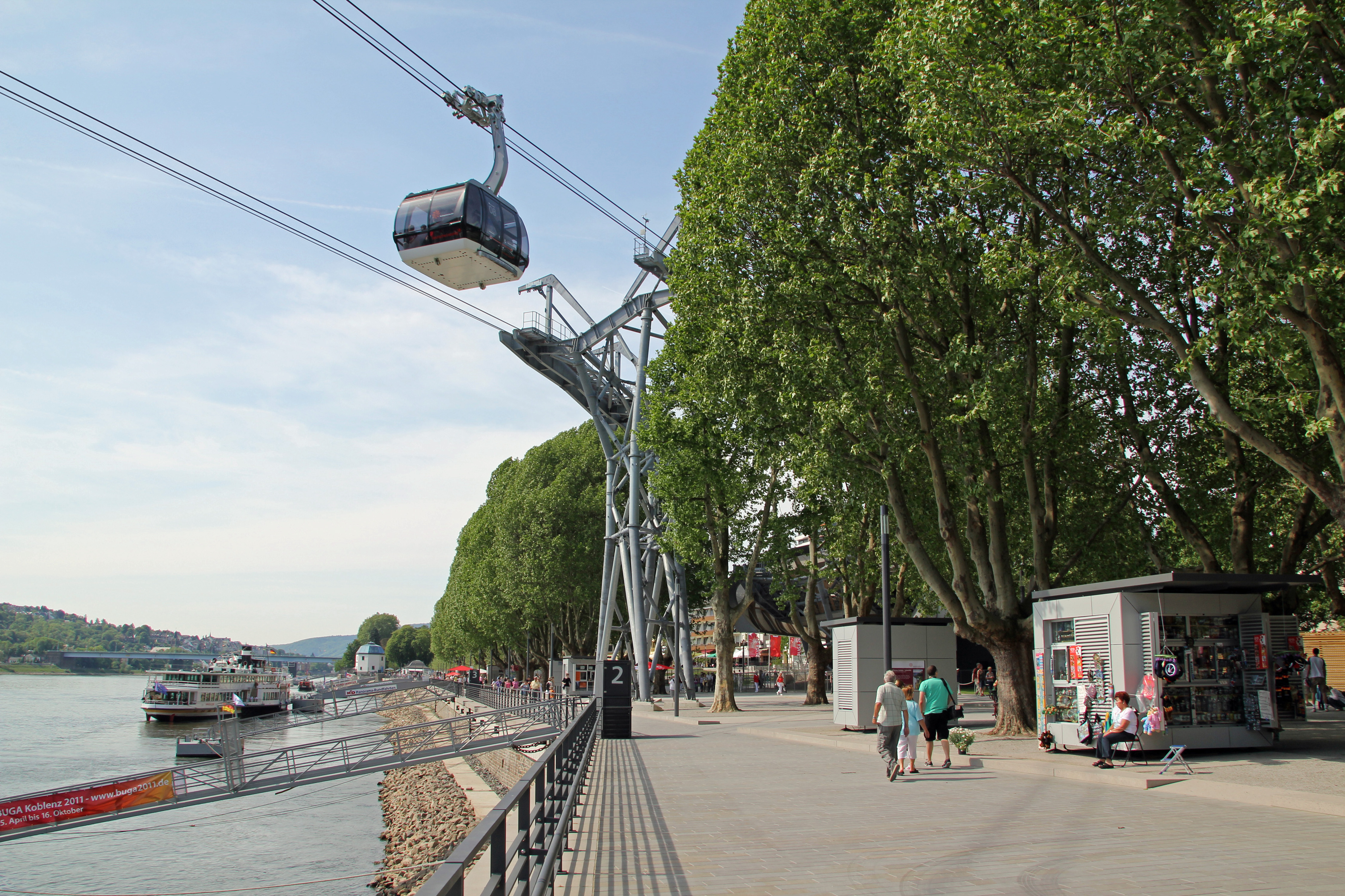 Rhine park in Koblenz